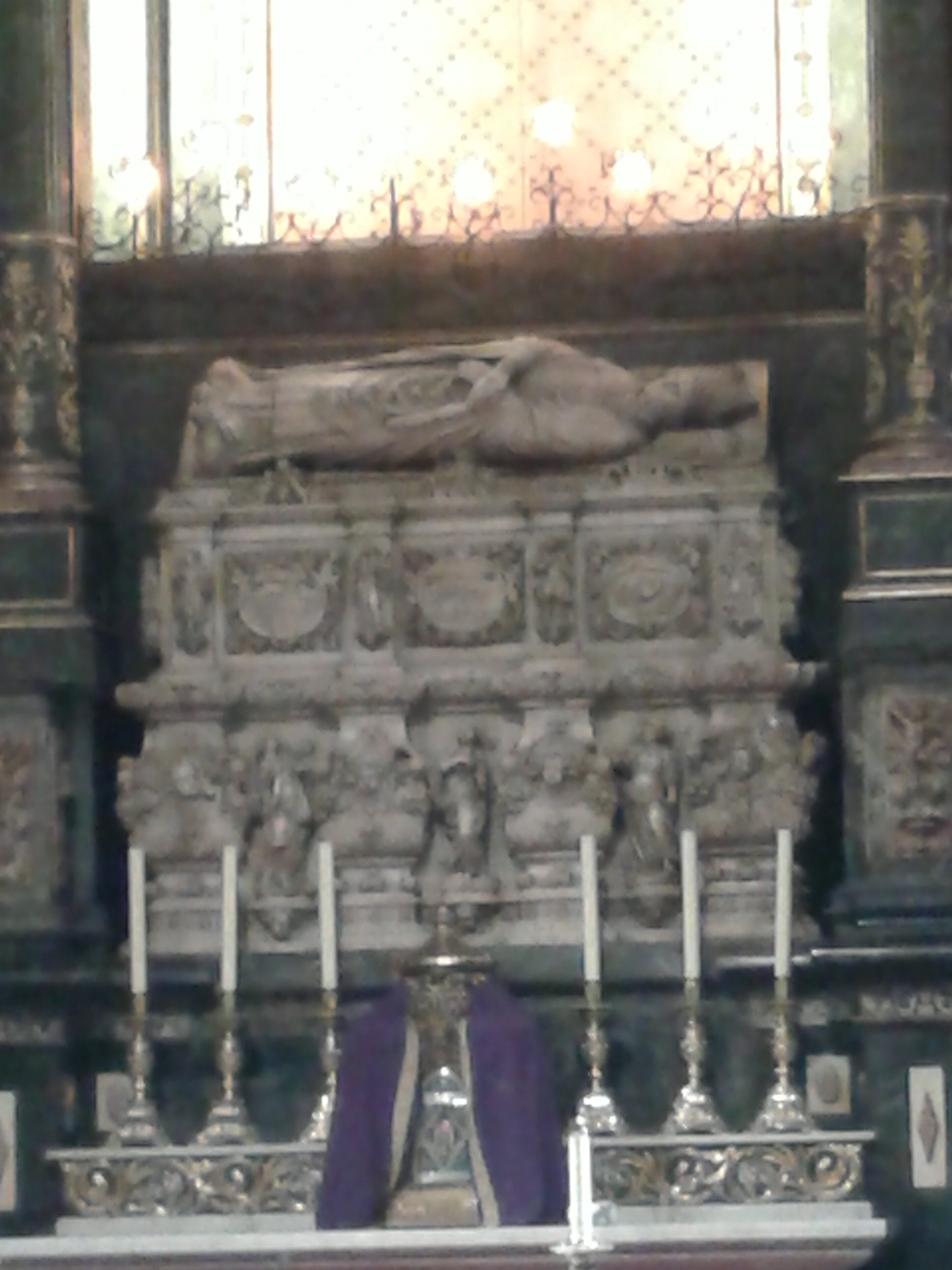 Sepulcre de Sant Oleguer juntament amb l'obra de Pere Ça Anglada, la figura jacent d'Oleguer